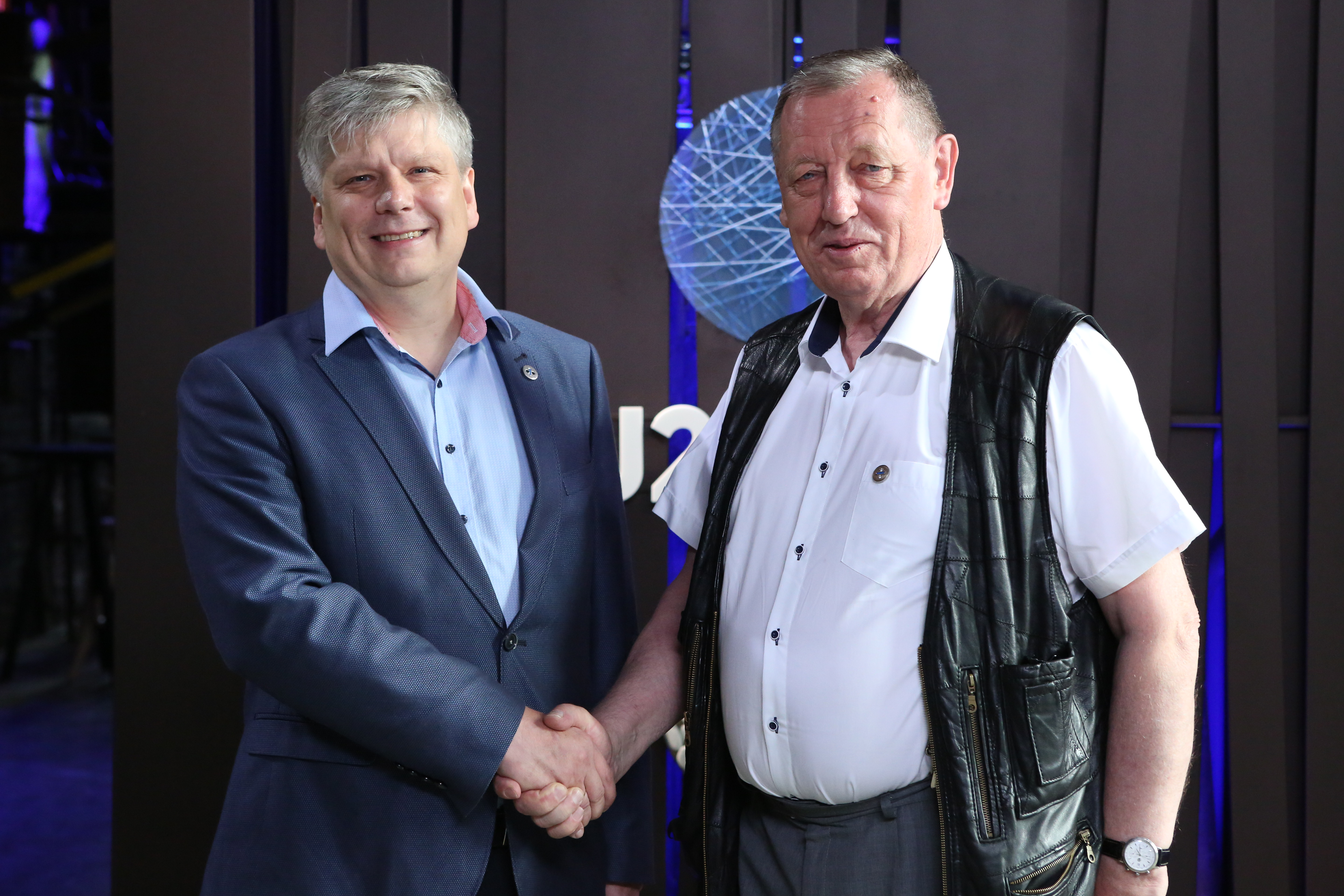 (l-r) Siim Kiisler, Minister, Ministry of Environment, Estonia; Jan Szyszko, Minister, Ministry of Environment, Poland Photo: Annika Haas (EU2017EE)